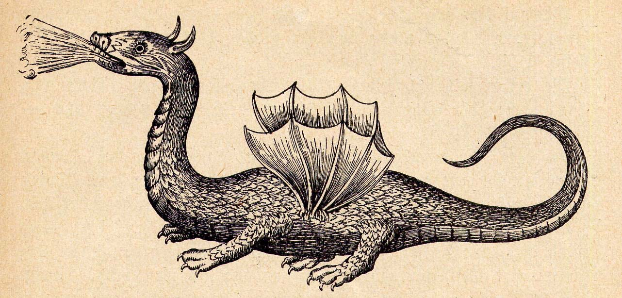 Winged dragon (on the ground), illustration in: Athanasius Kircher's Mundus Subterraneus.